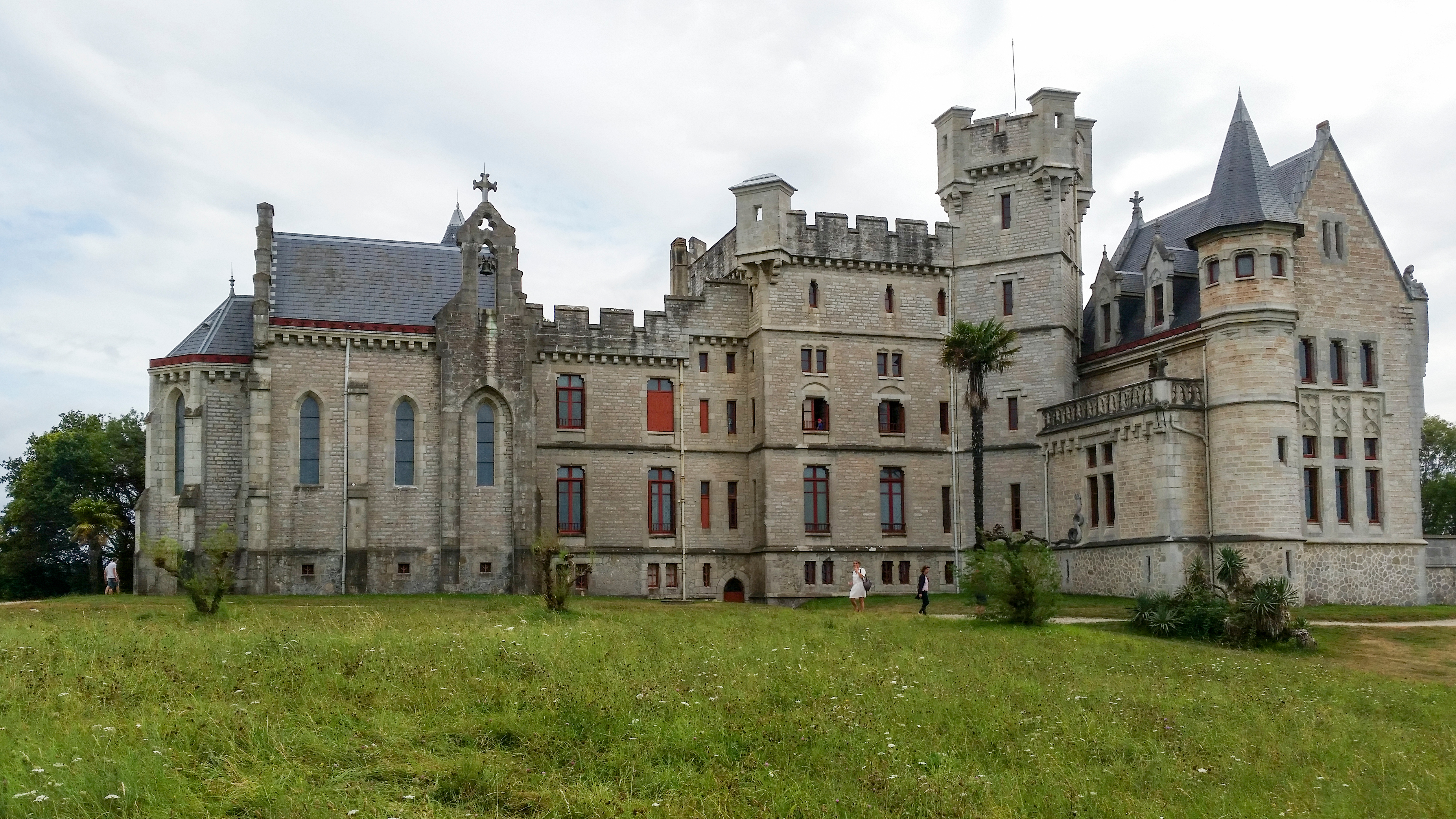 Abbadia castle (North side)